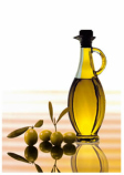 MIS TAREAS